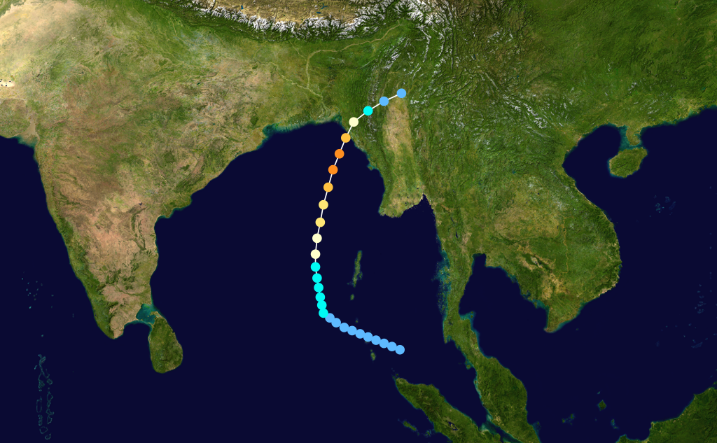 Cyclone 02B 1994 track. Uses the color scheme from the Saffir-Simpson Hurricane Scale.